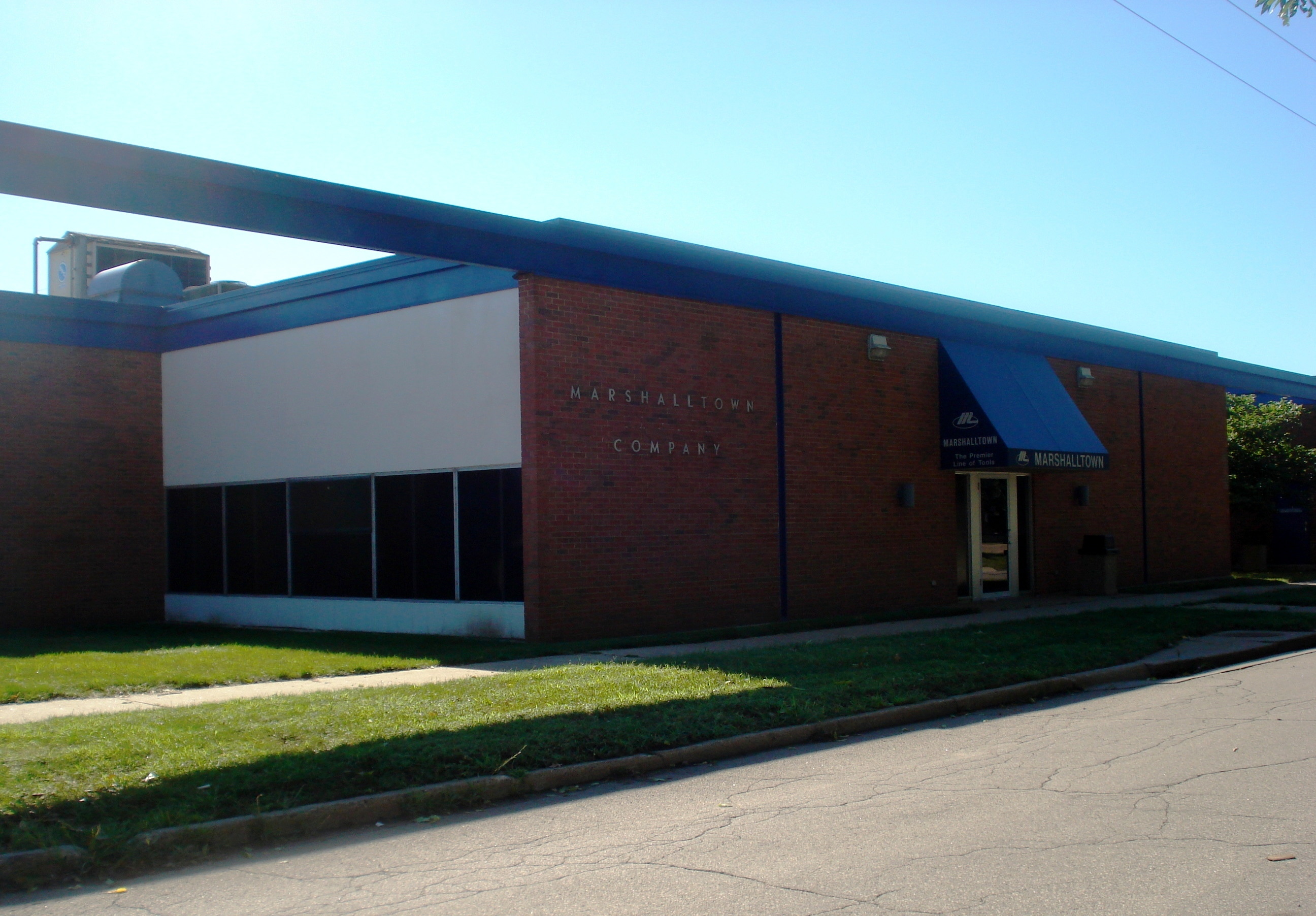 Formerly known as Marshalltown Trowel. Incorperated in 1905. Marshalltown, Iowa